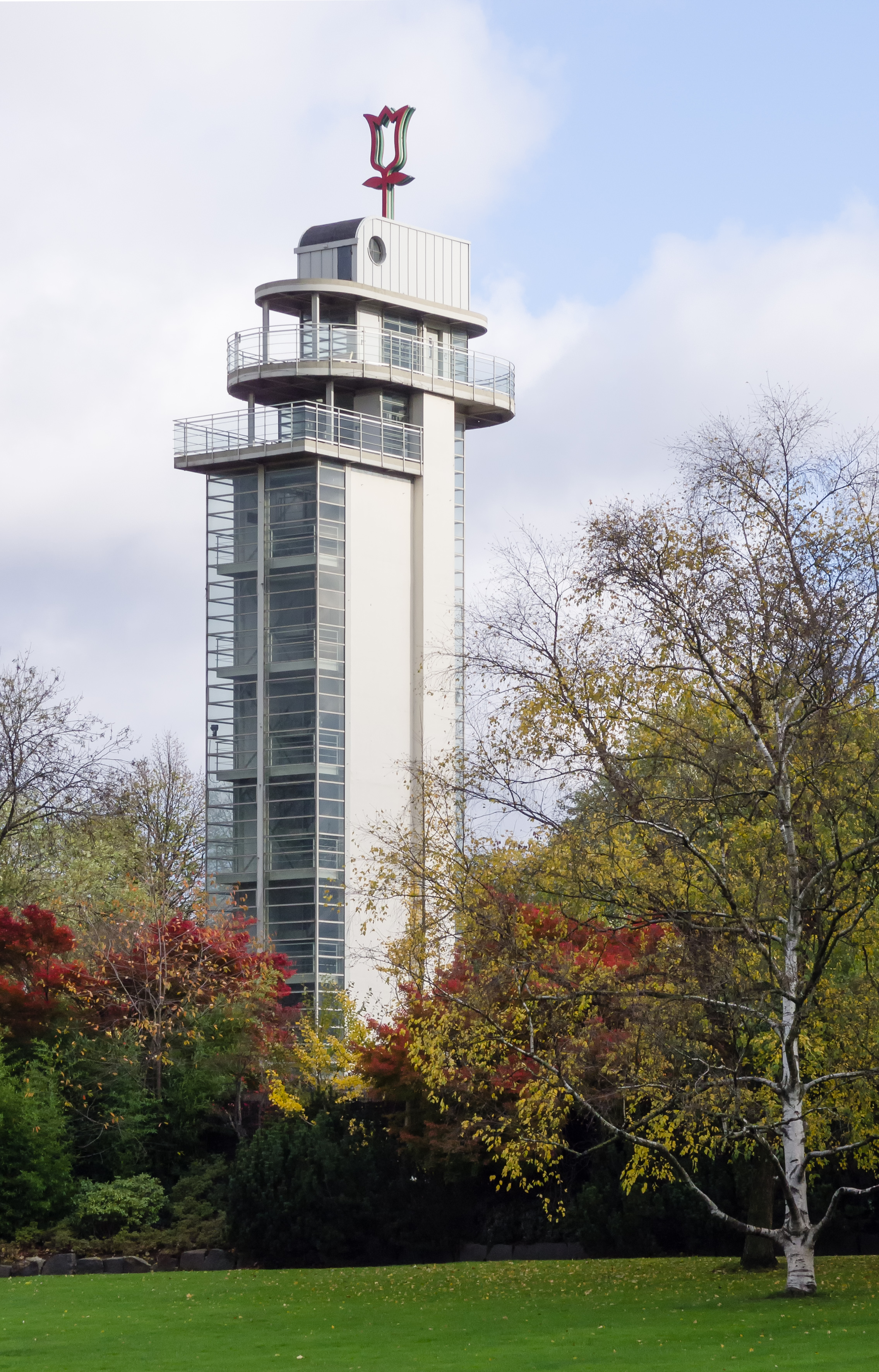 Tower of Gruga in Grugapark Essen